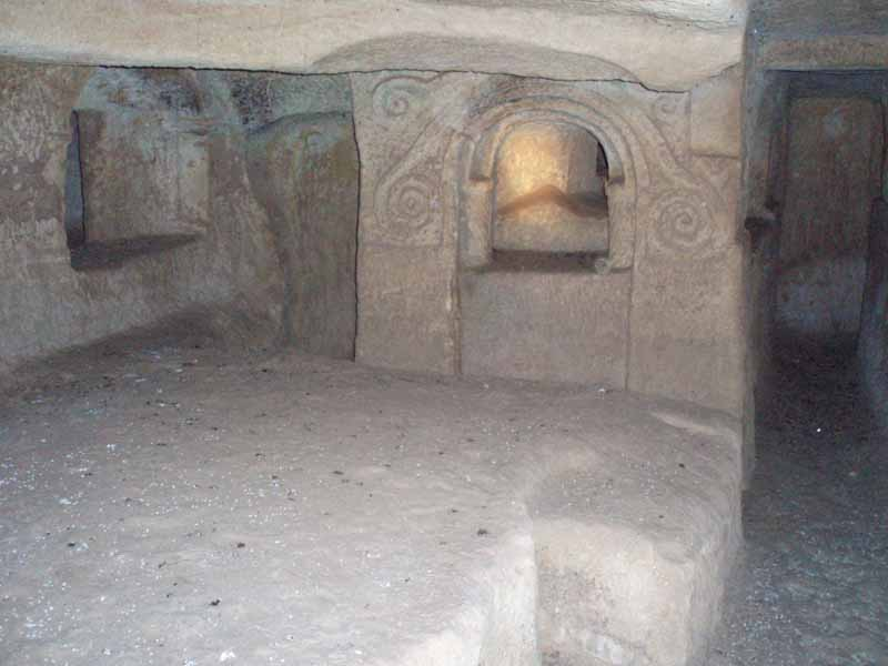 A window tomb in the Salina Catacombs, Malta.